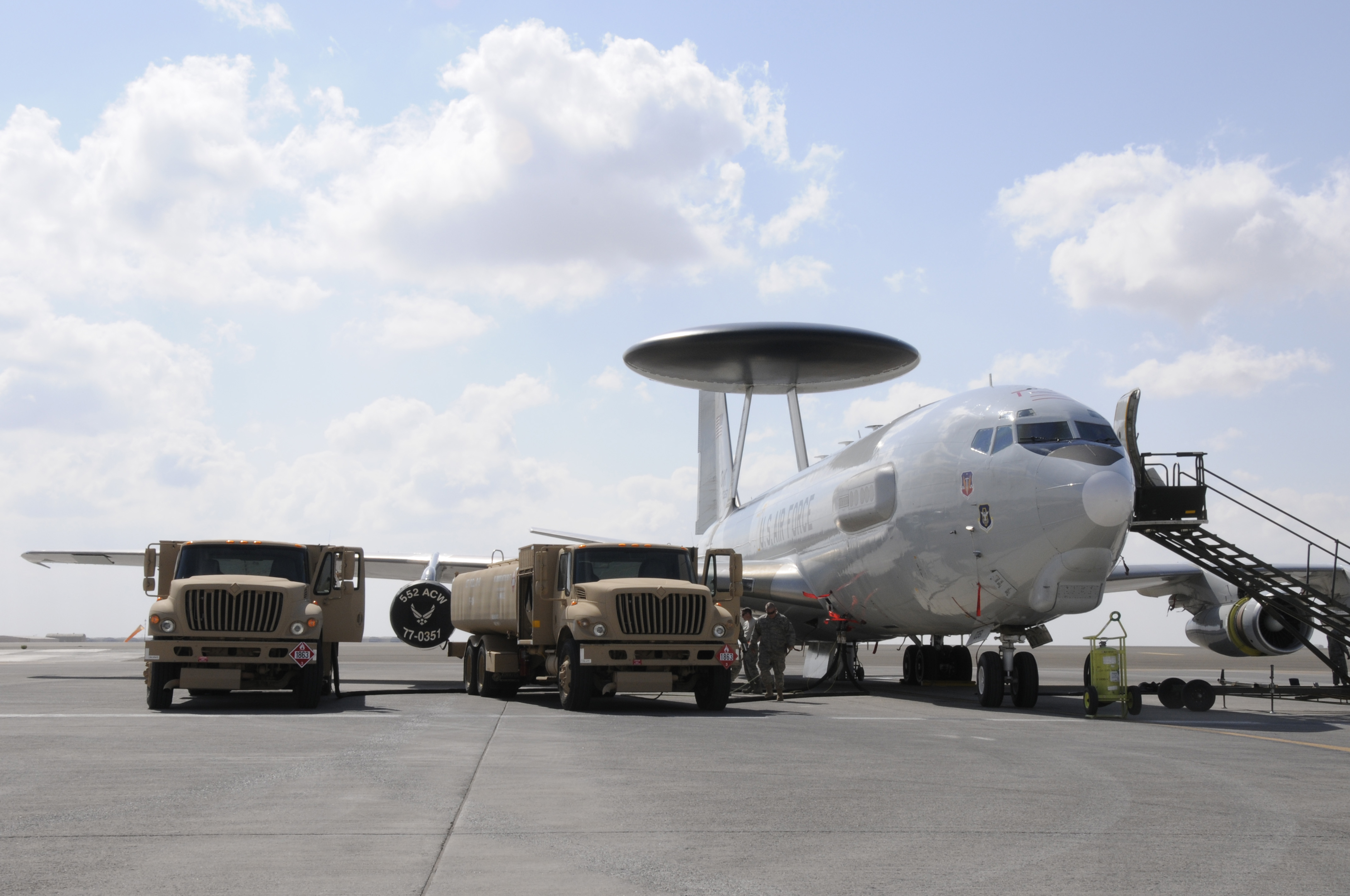 SOUTHWEST ASIA -- Two R-11 fuel trucks refuel an E-3 Sentry at the 380th Air Expeditionary Wing, Jan 21. The R-11 holds 6,000 gallons of fuel and is used to refuel the different aircraft at the 380th AEW. The E-3 Sentry takes 20,000 gallons to refuel when completely empty. The 380th is the second largest refueling wing in the Air Force distributing an average of 520,000 gallons a day to aircraft throughout southwest Asia. (U.S. Air Force photo by Senior Airman Brian J. Ellis) (Released)